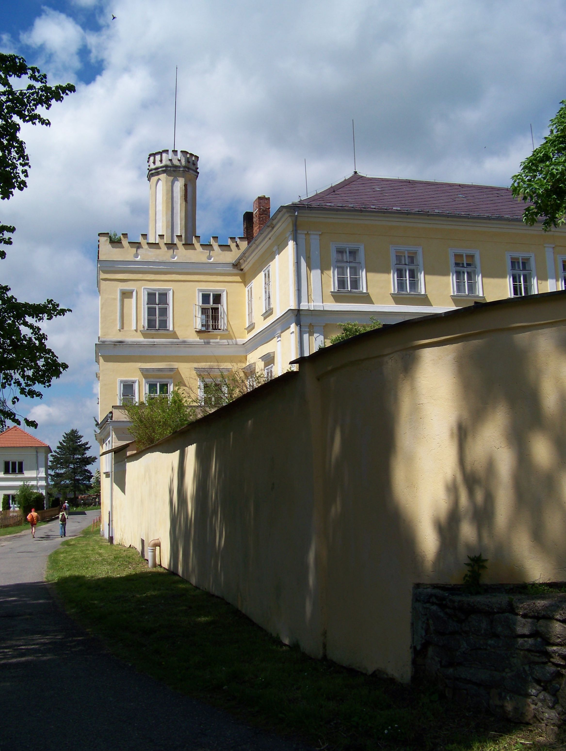 Vojkov, Benešov District, Central Bohemian Region, the Czech Republic. The castle.